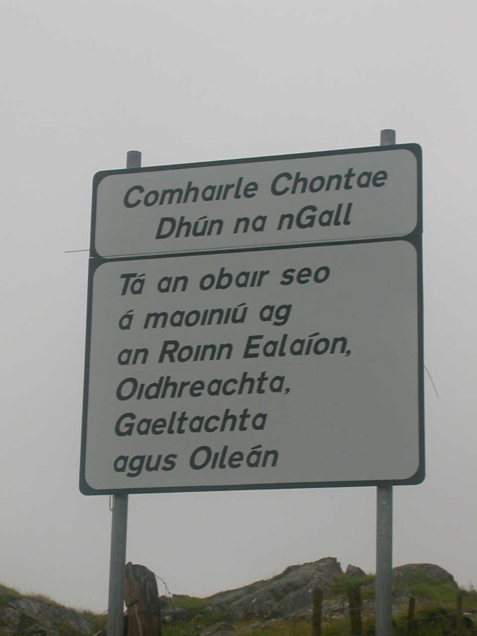 Gaeltacht road sign in County Donegal